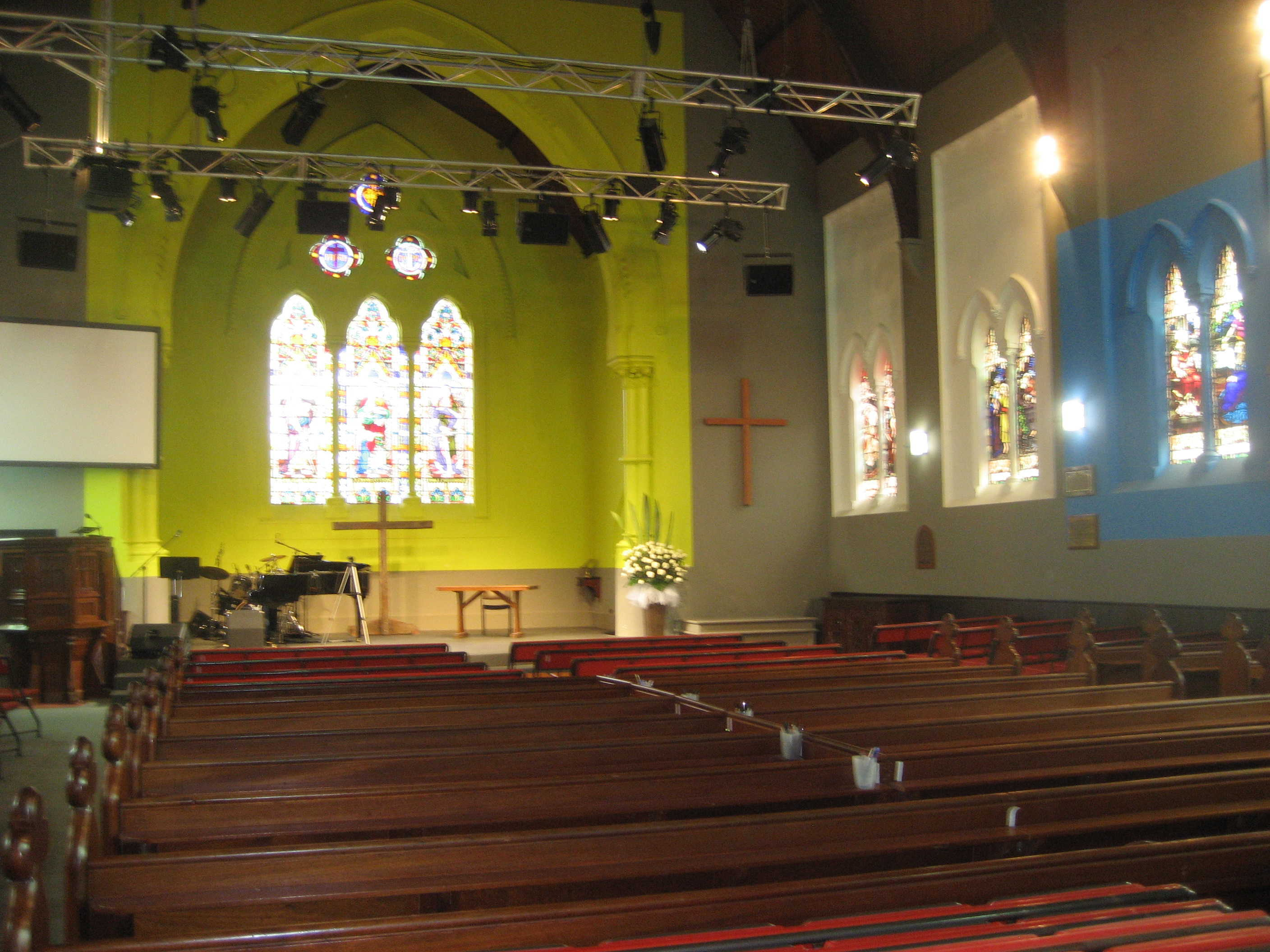 interior of St Jude's showing stained glass windows